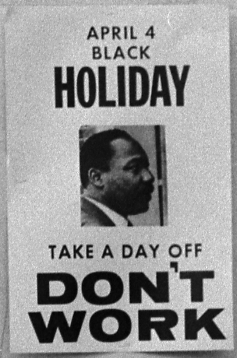 "Don't Work" sign promoting a holiday to honor the anniversary of the assassination of Martin Luther King, Jr., on a shop on H Street, N.W., Washington, D.C.